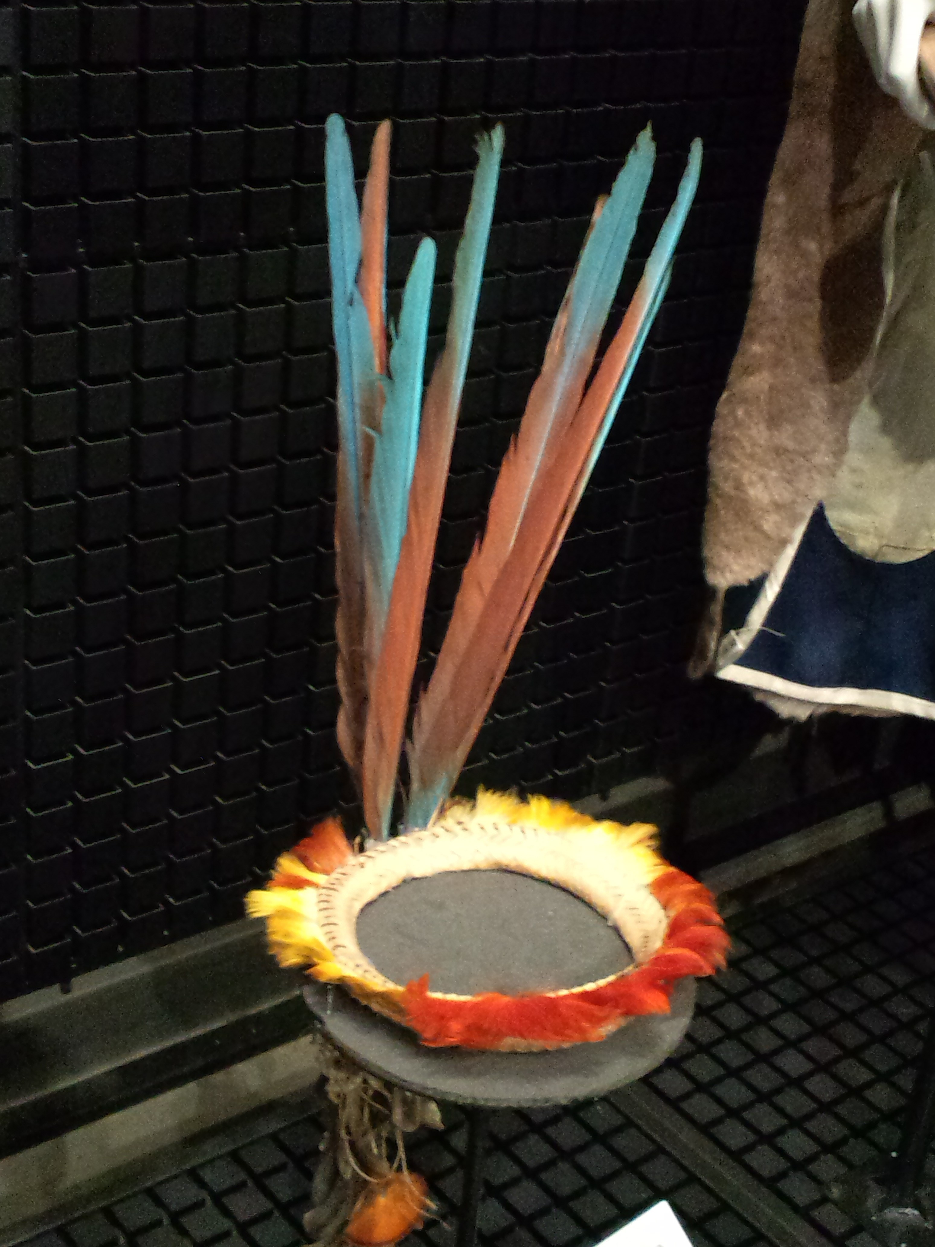 Piaroa headdress collected in 1984 in Venezuela and displayed in the National Museum of Ethnology (Osaka) in Japan.